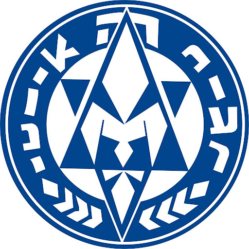 The logo of the Hanoar Hatzioni